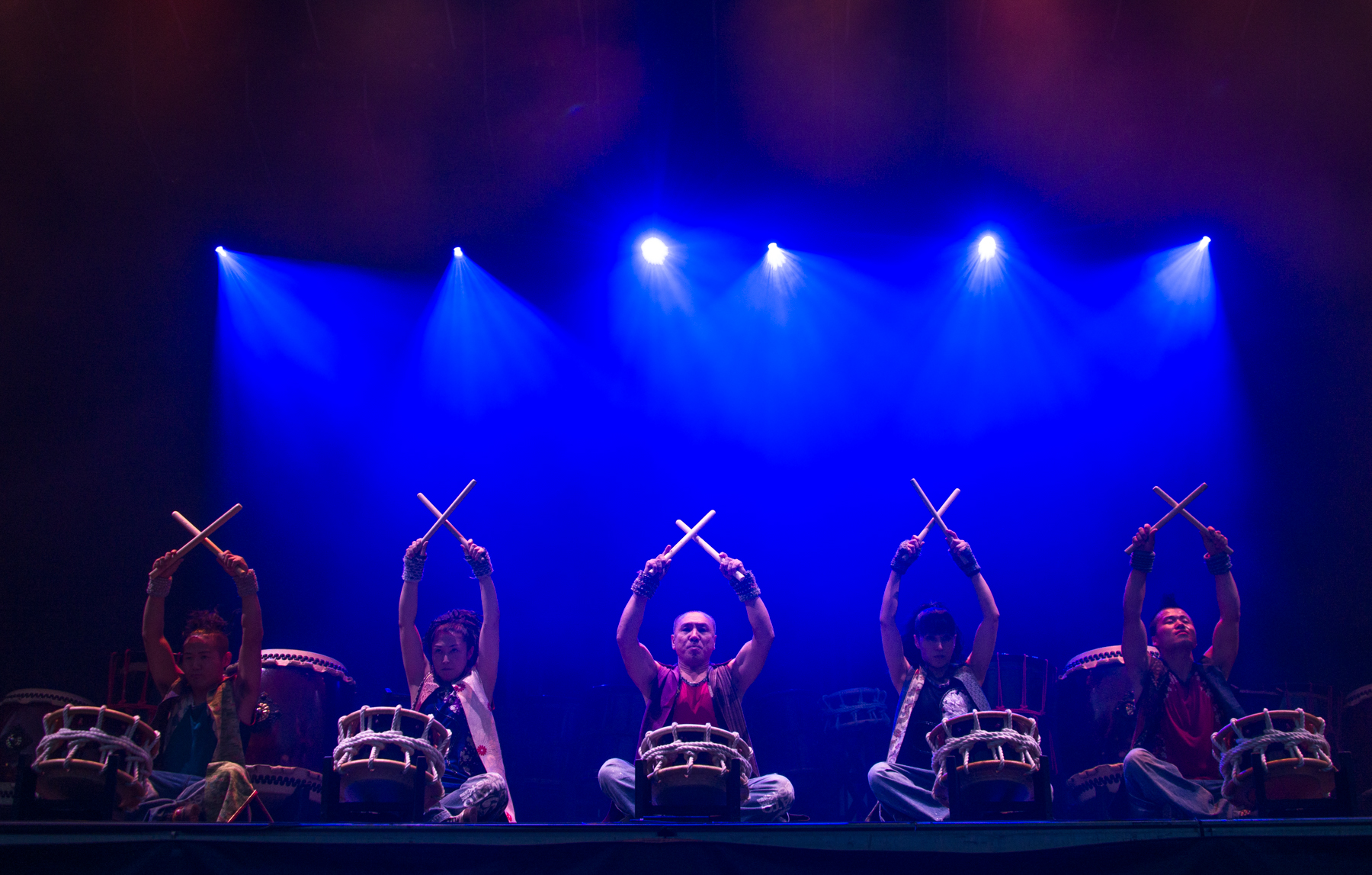 Yamato - The Drummers of Japan - during Stockholm Culture Festival 2018.